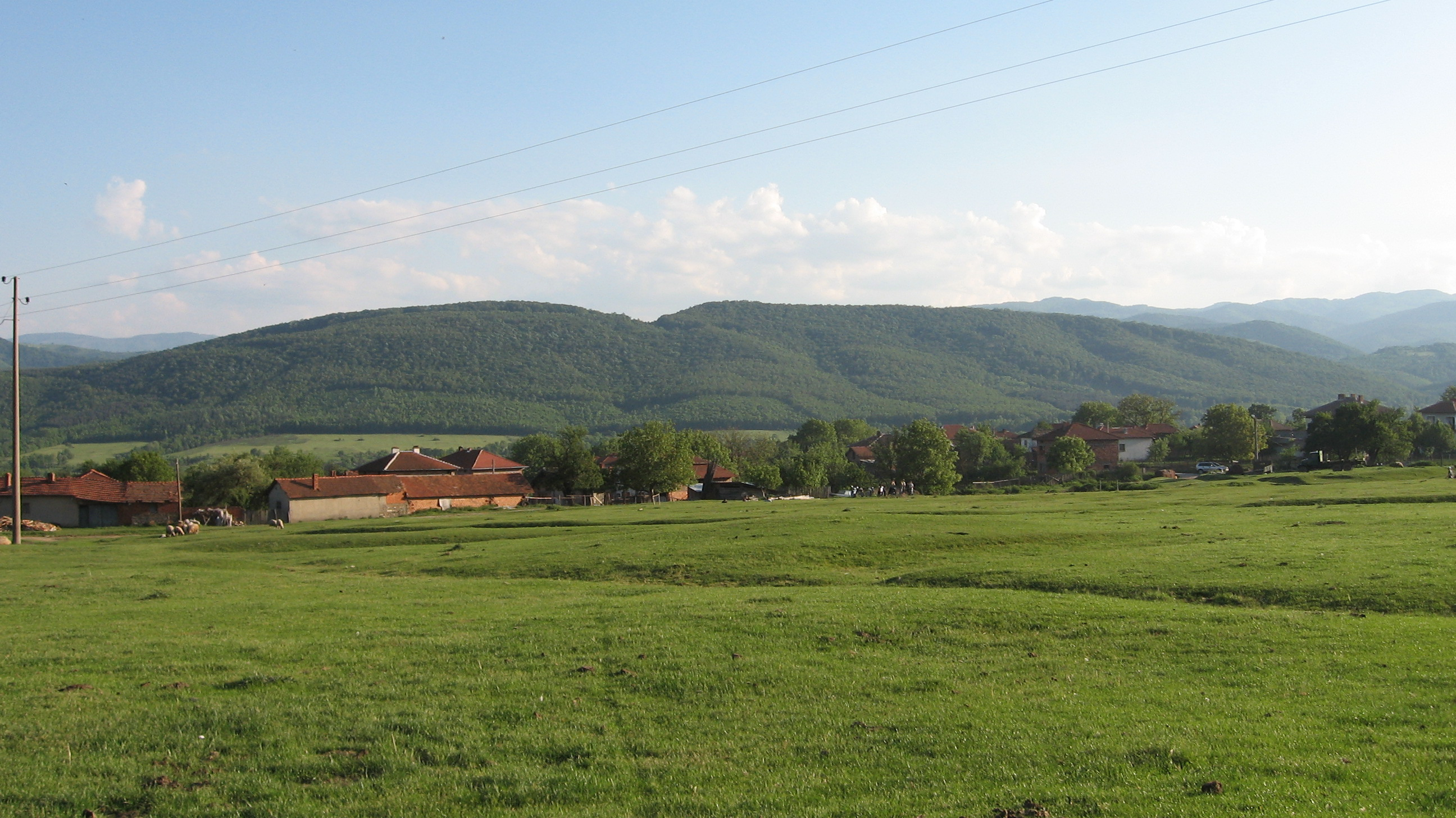 изглед от борима